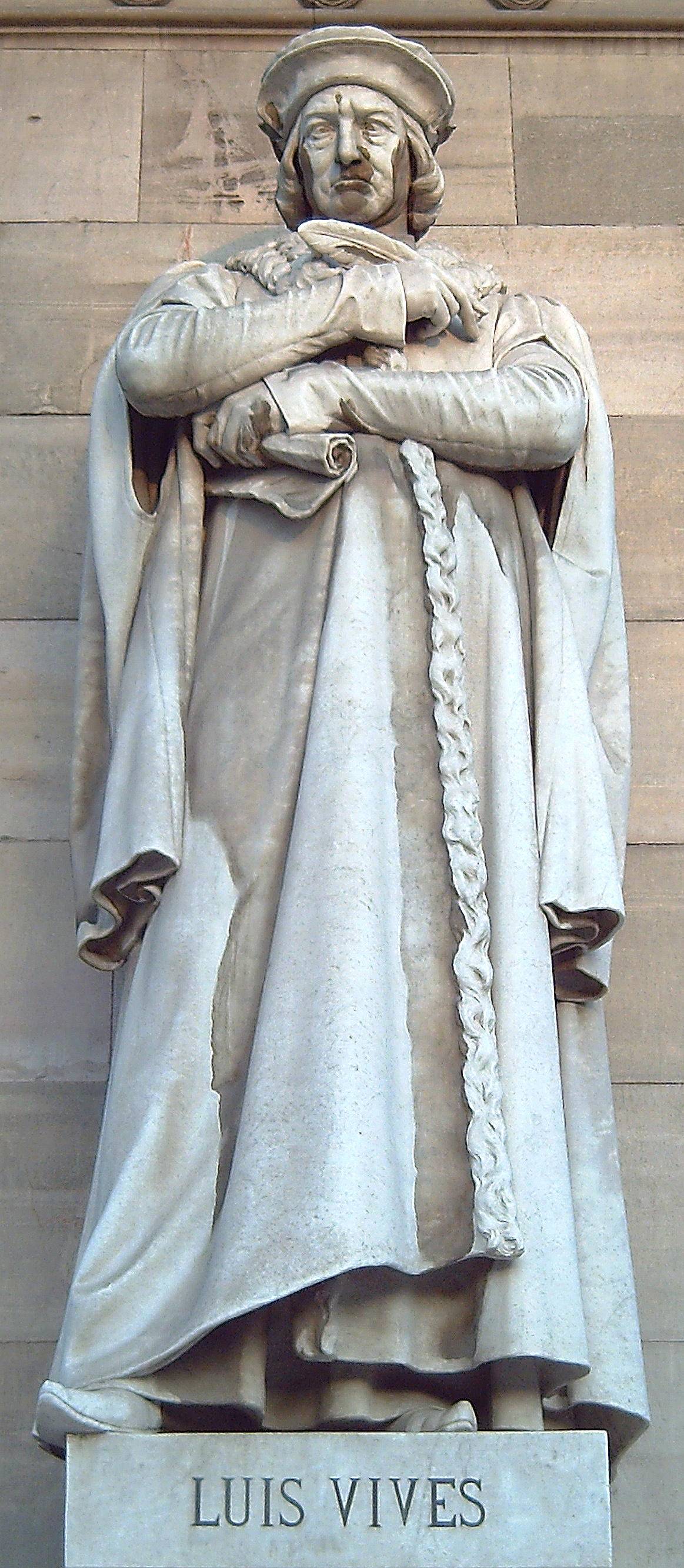 Depicted person: Juan Luis Vives.